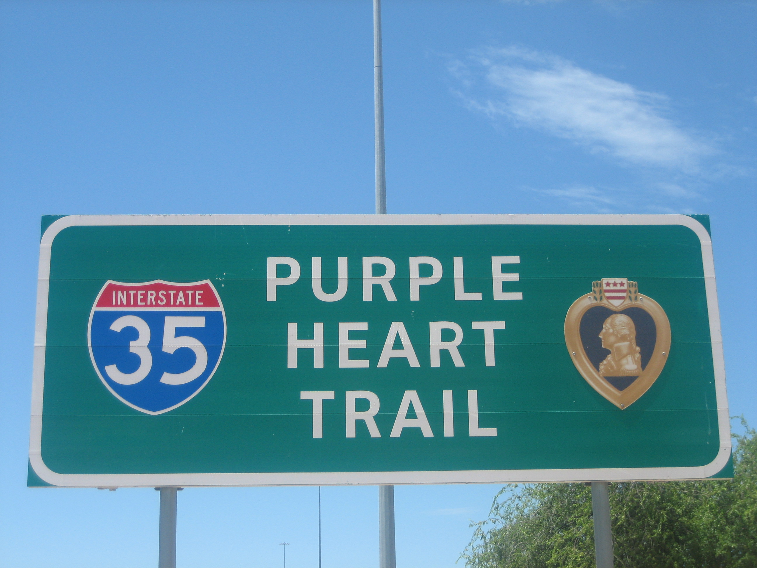 I took photo on July 1, 2009.